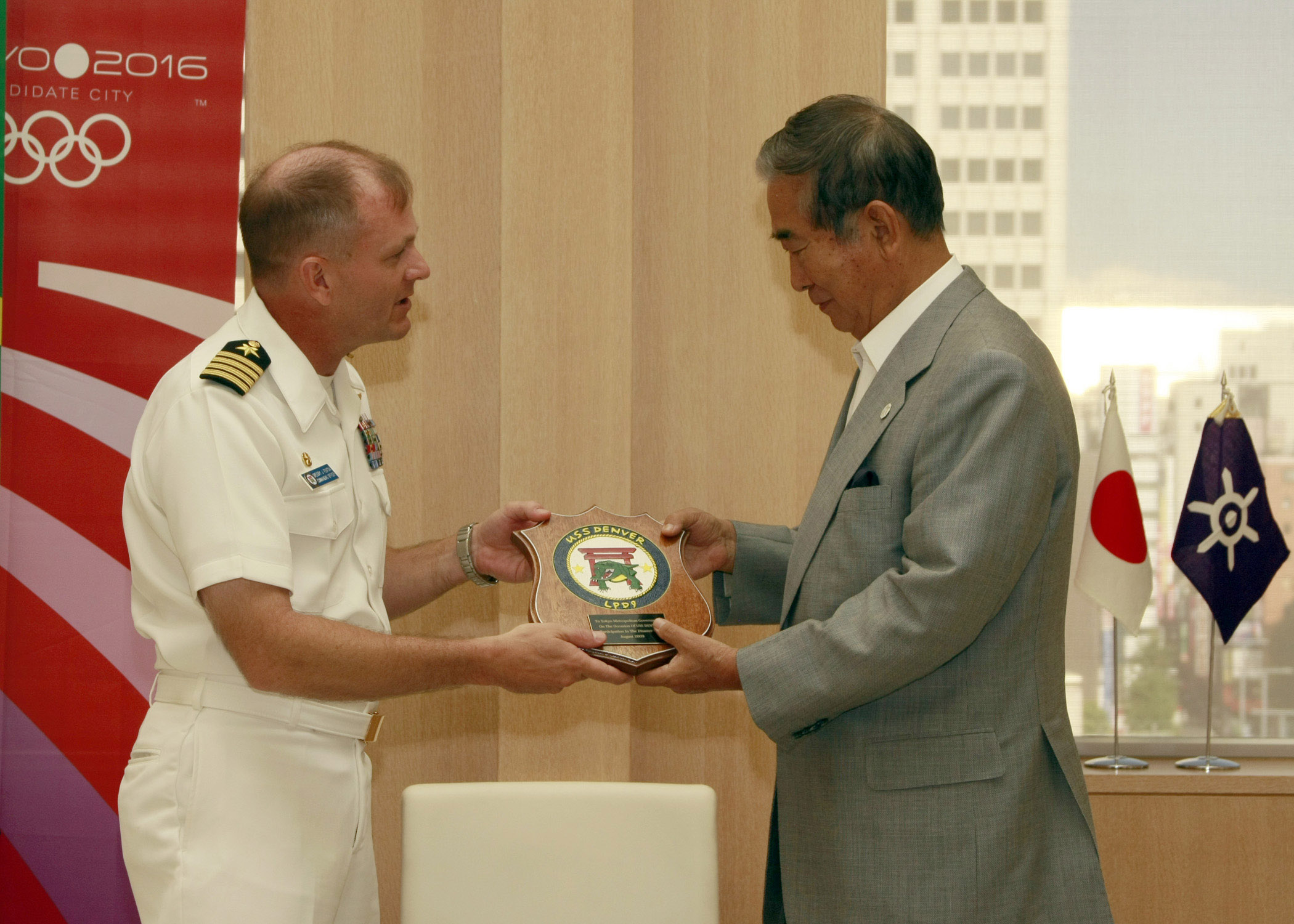 TOKYO (Aug. 28, 2009) Capt. Gregory J. Fenton, commanding officer of the amphibious transport dock ship USS Denver (LPD 9), presents a ship's plaque to Tokyo Metropolitan Governor Shintaro Ishihara while discussing an upcoming exercise. Denver is preparing to participate in a Tokyo Metropolitan government disaster relief drill with the Japan Self-Defense Force and local governments. Denver is the Navy's only forward-deployed amphibious transport dock and is part of the expeditionary strike group forward-deployed to Sasebo, Japan. (U.S. Navy photo by Mass Communication Specialist 1st Class Michael Gomez/Released)